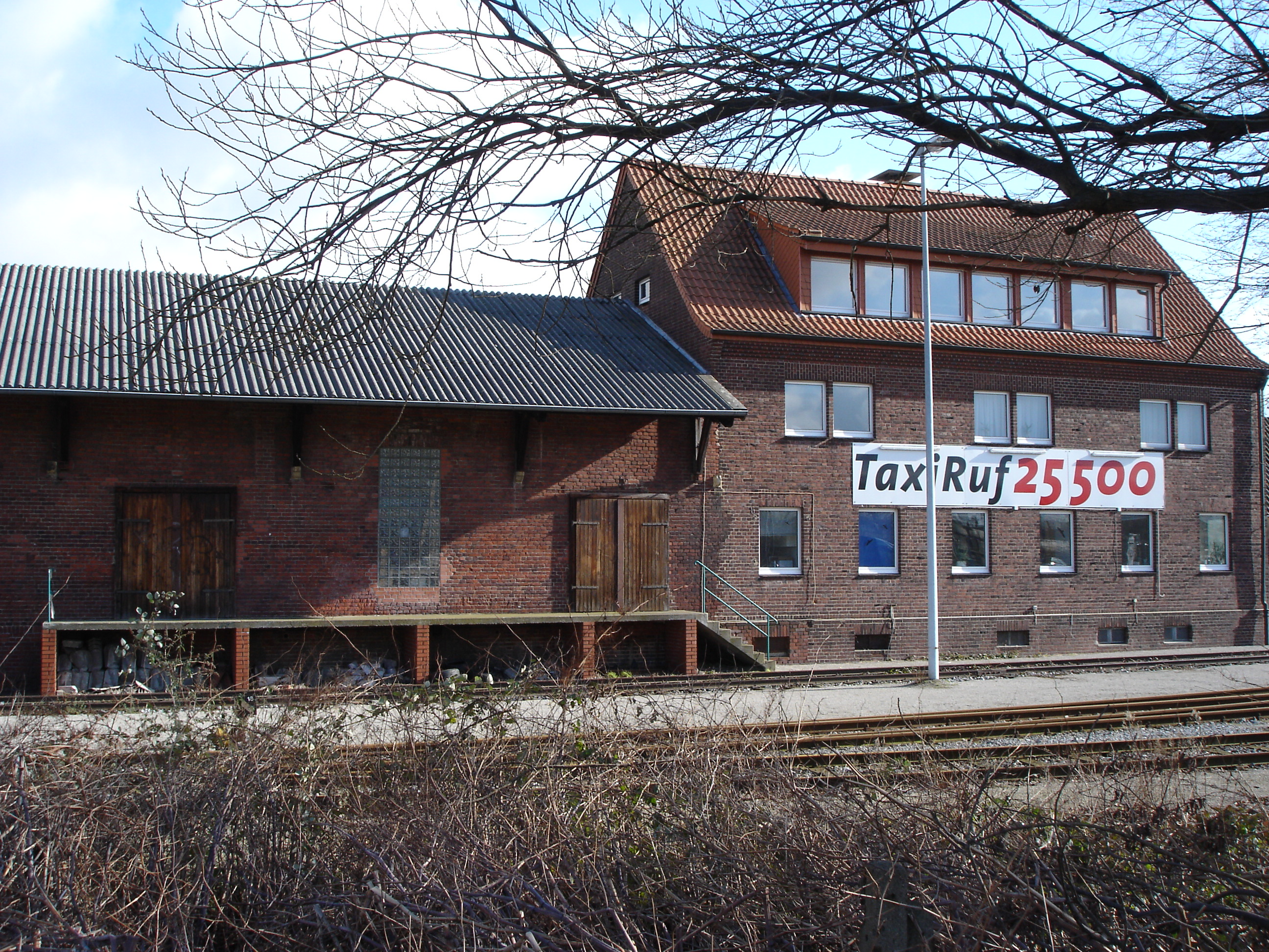 Former goods depot at Münster Ost train station